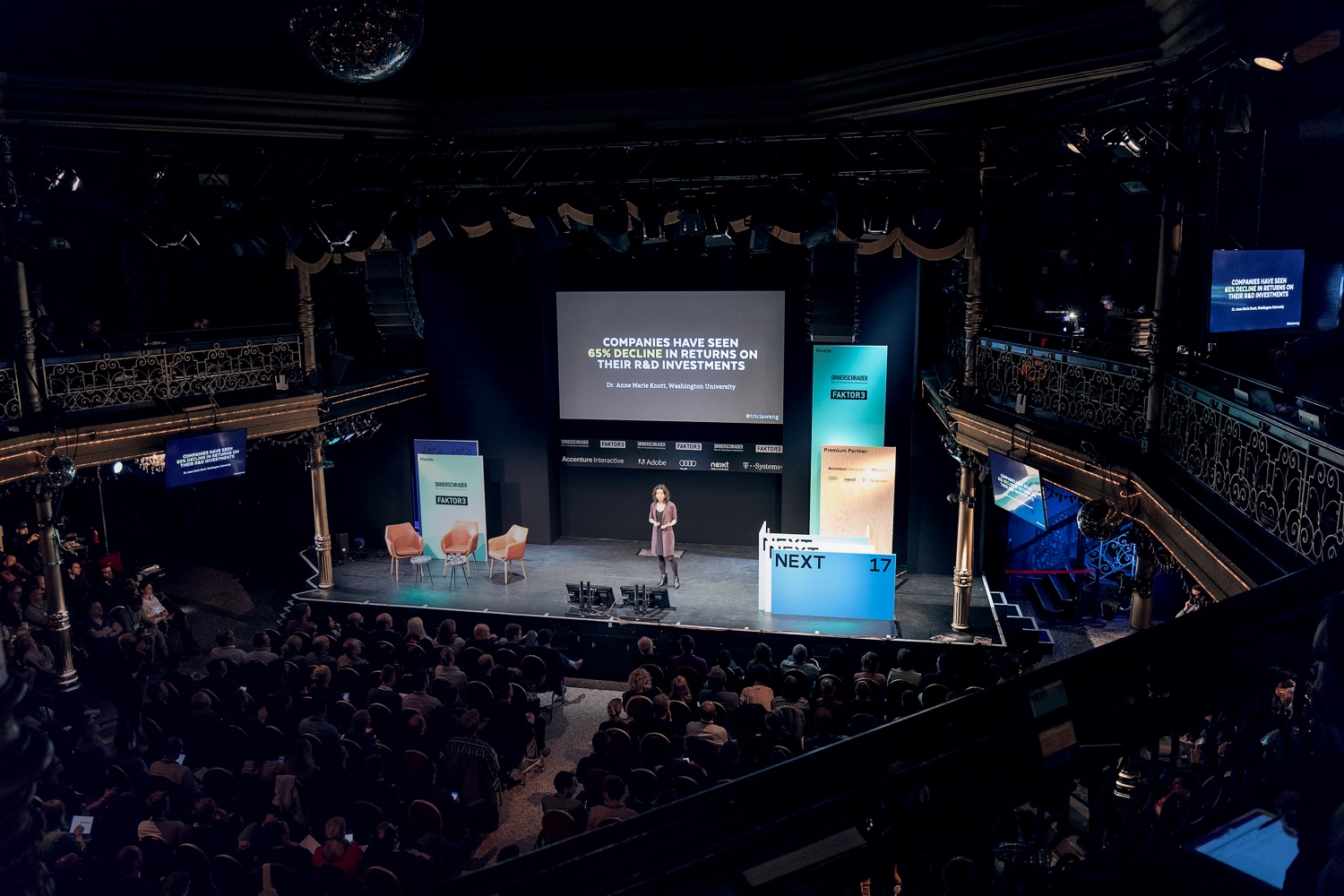 Next Conference 2017 at Schmidts Tivoli